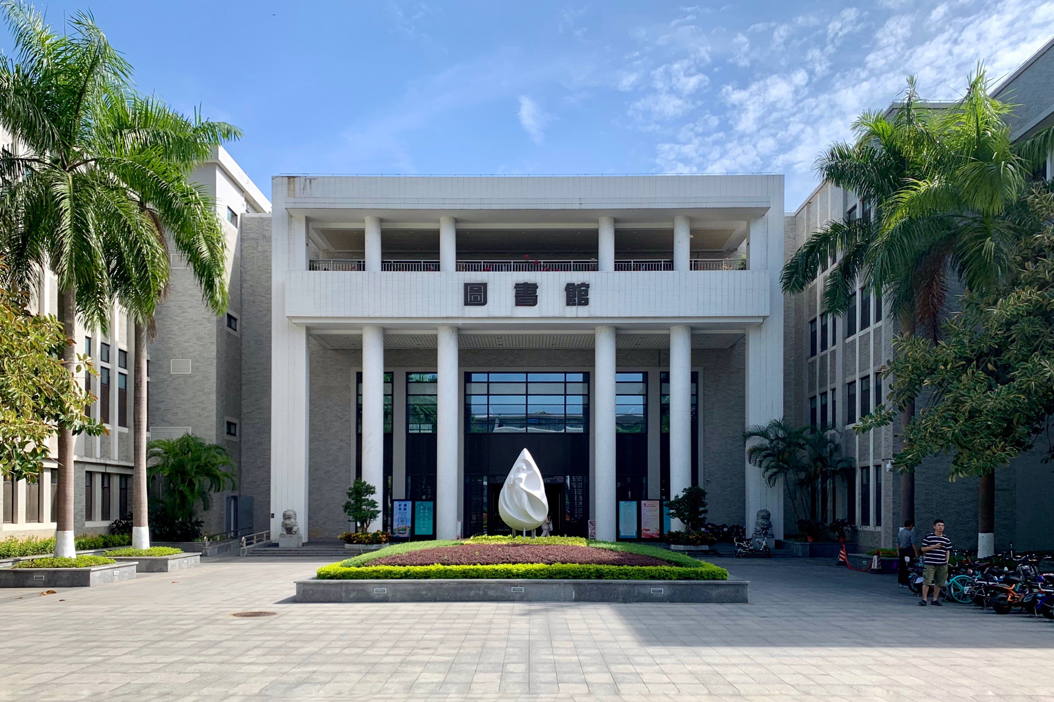 Entrance of the library of South China University of Technology.